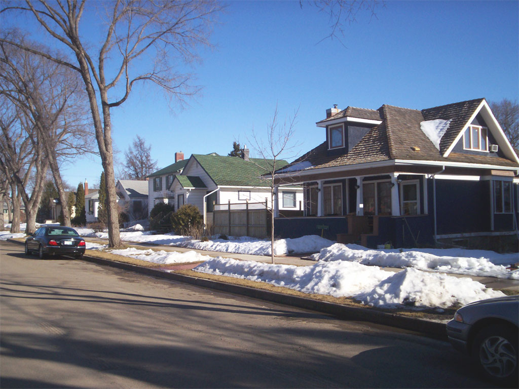 Photo taken by me. (Original text: A Saskatoon inner city neighborhood Buena Vista, Nutana SDA, Saskatoon, Saskatchewan, Canada)